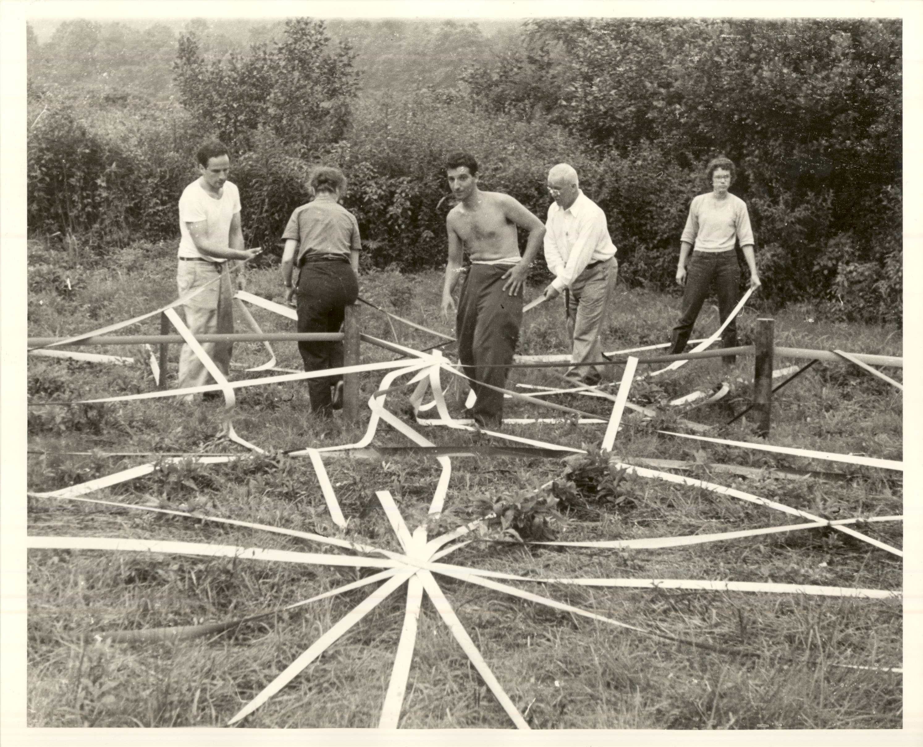 Photo by Beaumont Newhall, Summer 1948. Courtesy Beaumont & Nancy Newhall Estate. Scheinbaum & Russek Ltd., Santa Fe, N.M. © Beaumont & Nancy Newhall Estate. Reproduced from the Black Mountain College Research Project Papers, Visual Materials, North Carolina State Archives, Western Regional Archives, Asheville, NC (formerly Raleigh, NC)